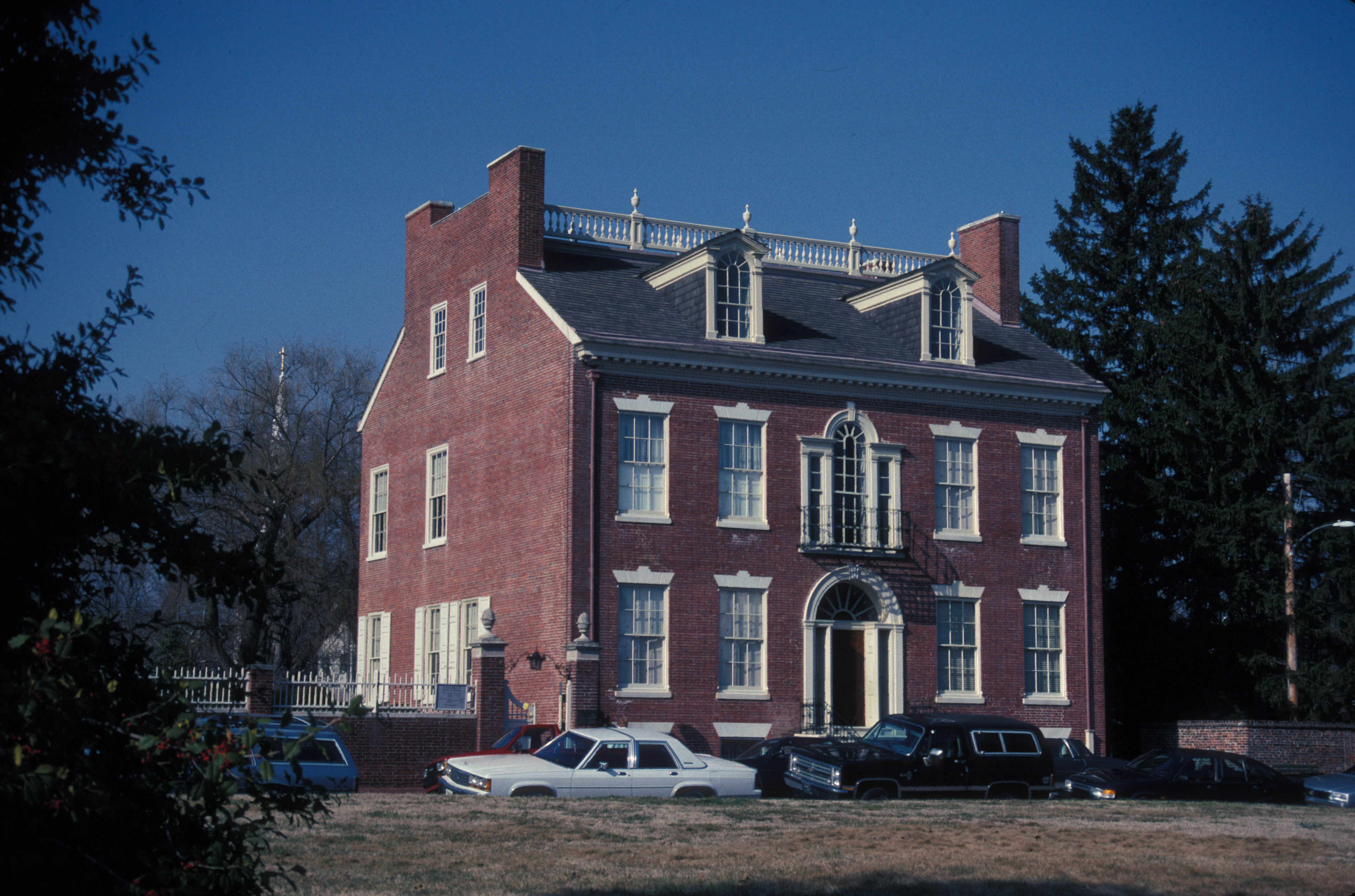 SON OF THE SIGNER OF THE DECLARATION OF INDEPENDENCE AND CONSTITUTION. THIS HOUSE IS A RECONSTRUCTION OF THE ORIGINAL WHICH BURNT DOWN.